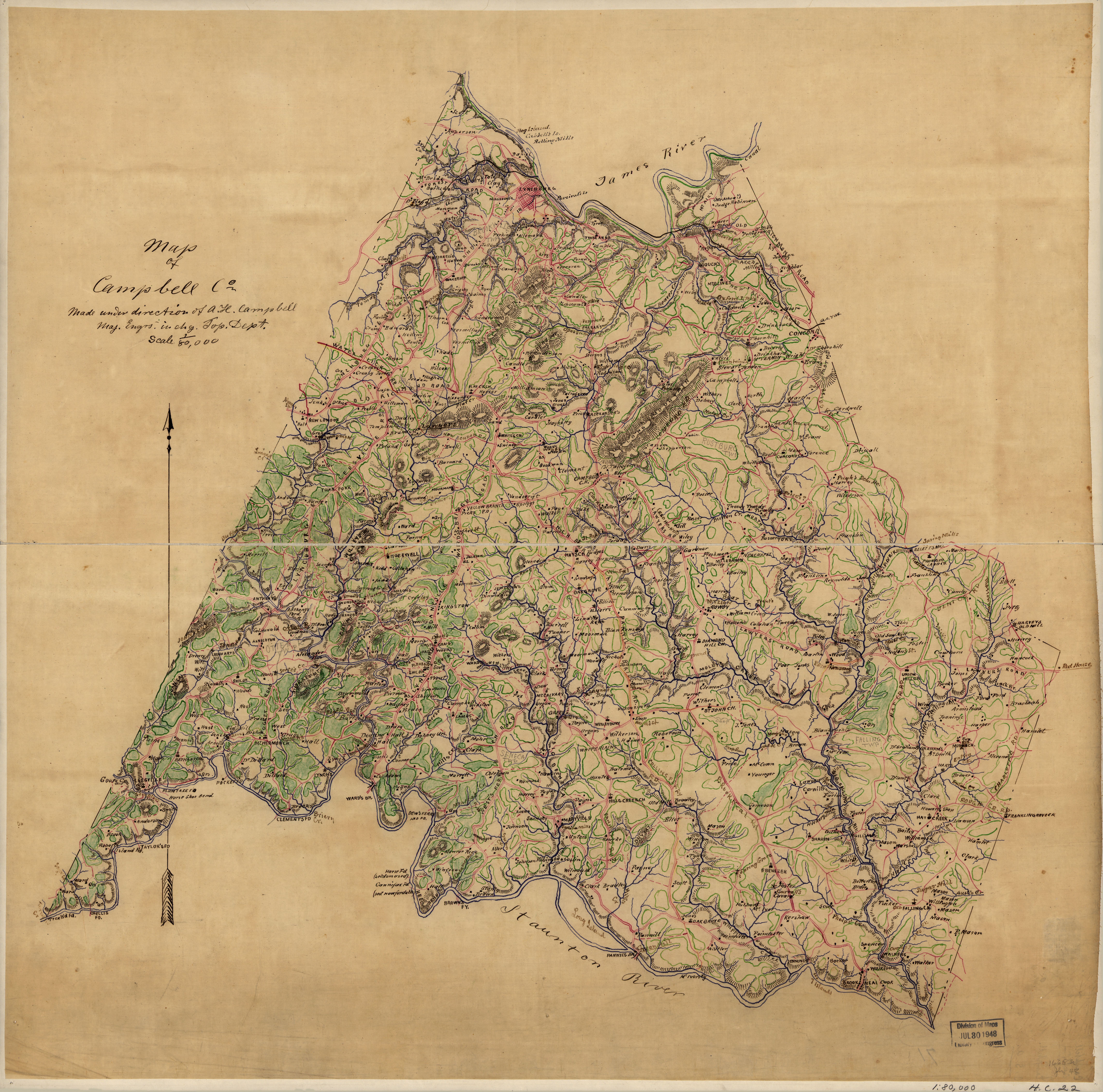 LC Land ownership maps, 1228 Relief shown by hachures. Shows names of some residents. Pen-and-ink with pencil annotations on tracing linen mounted on cloth. LC Civil War maps (2nd ed.), H22 Available also through the Library of Congress web site as raster image.